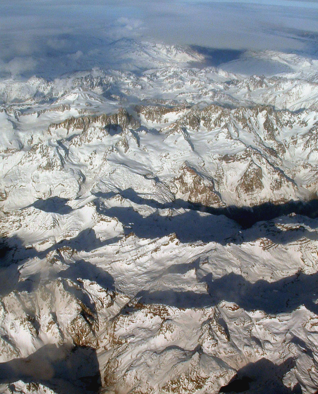 The Andes. Photo was taken on a flight between Asuncion, Paraguay and Santiago, Chile, so the exact location is probably in the area between Santiago, Chile and Cordoba, Argentina.